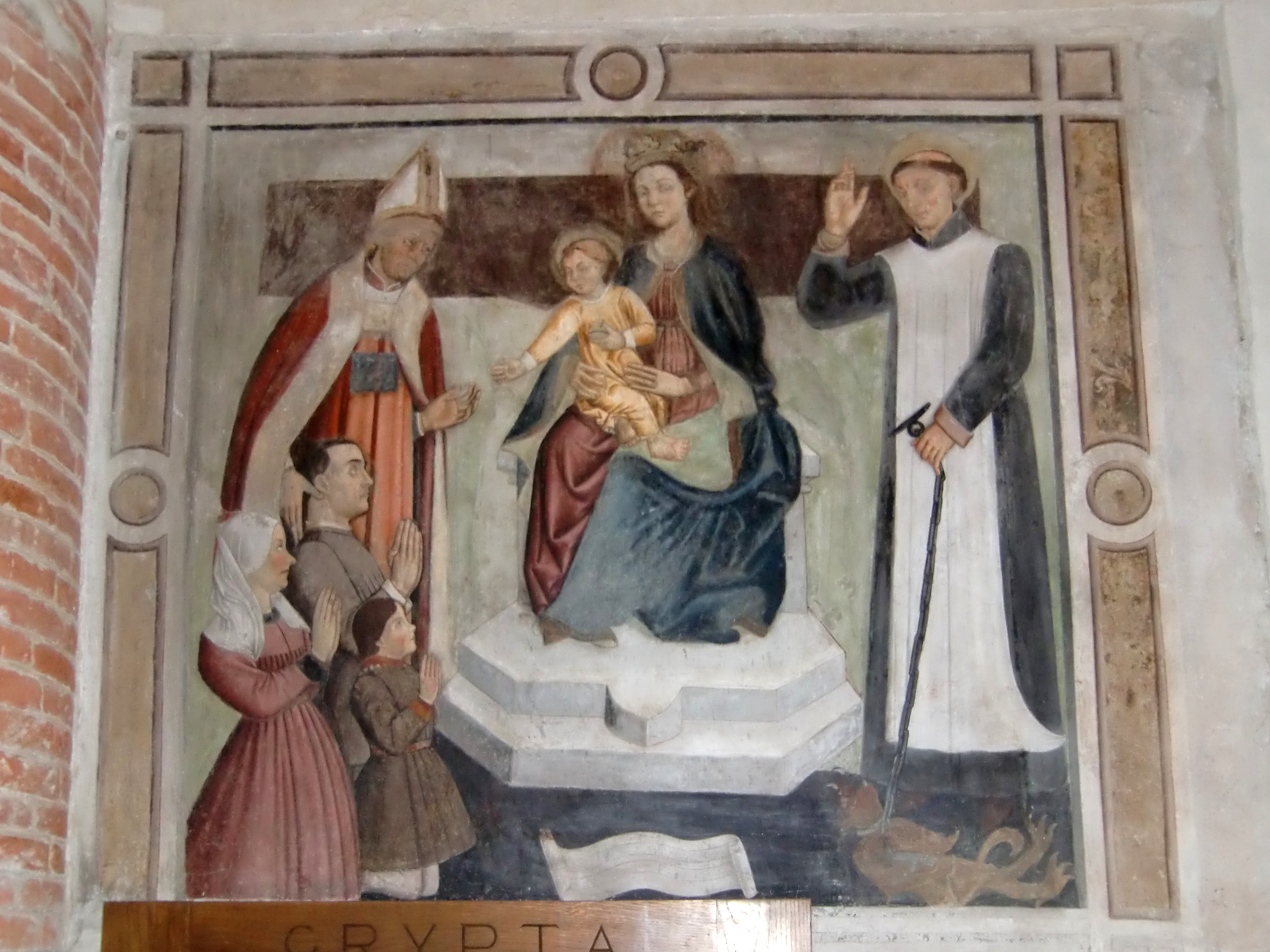 Ivrea, Cathedral, Unknown painter of the fifteenth century, Madonna and Child, saint Bernard of Menthon, a bishop and donors